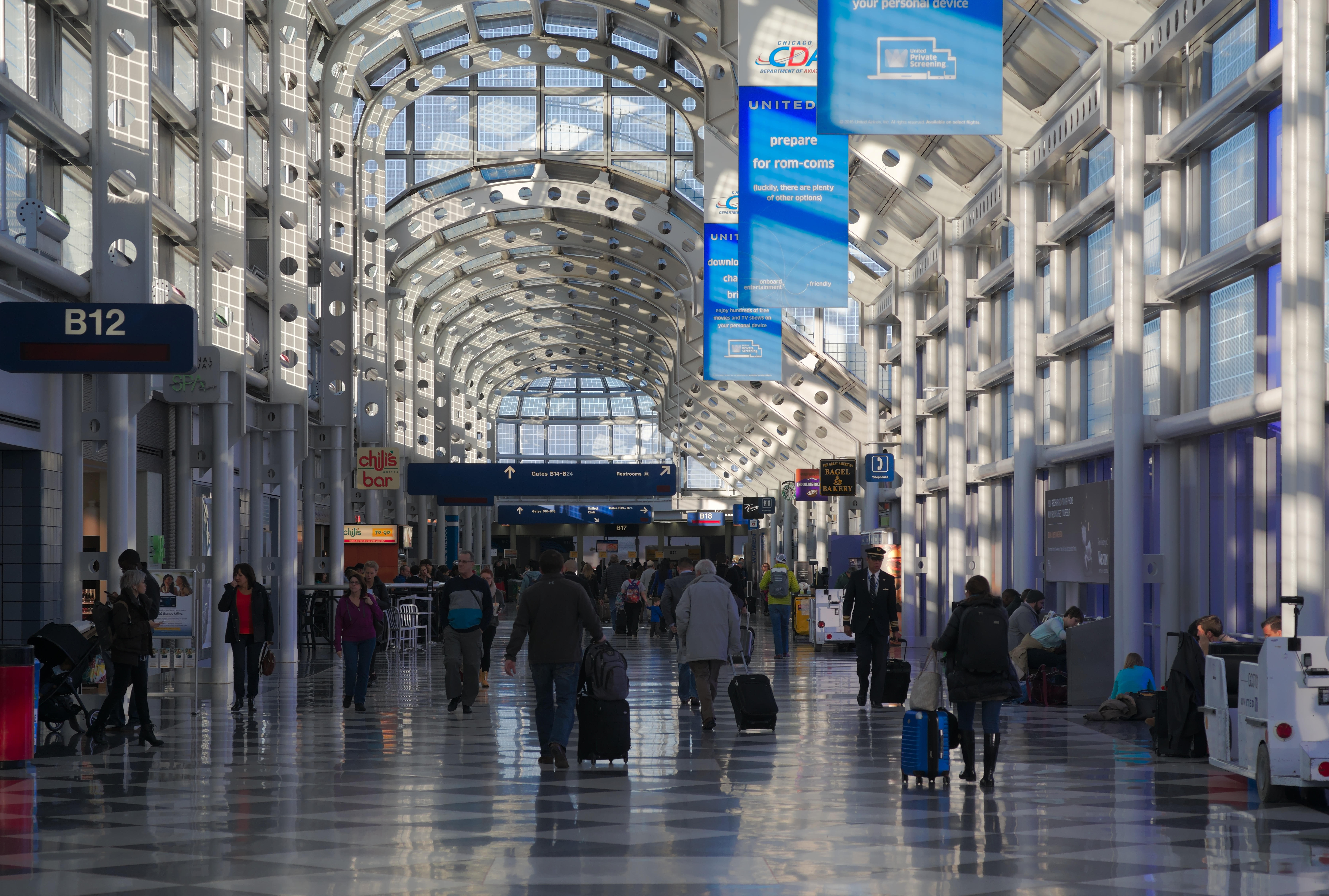 Concourse B at O'Hare Airport in Chicago.